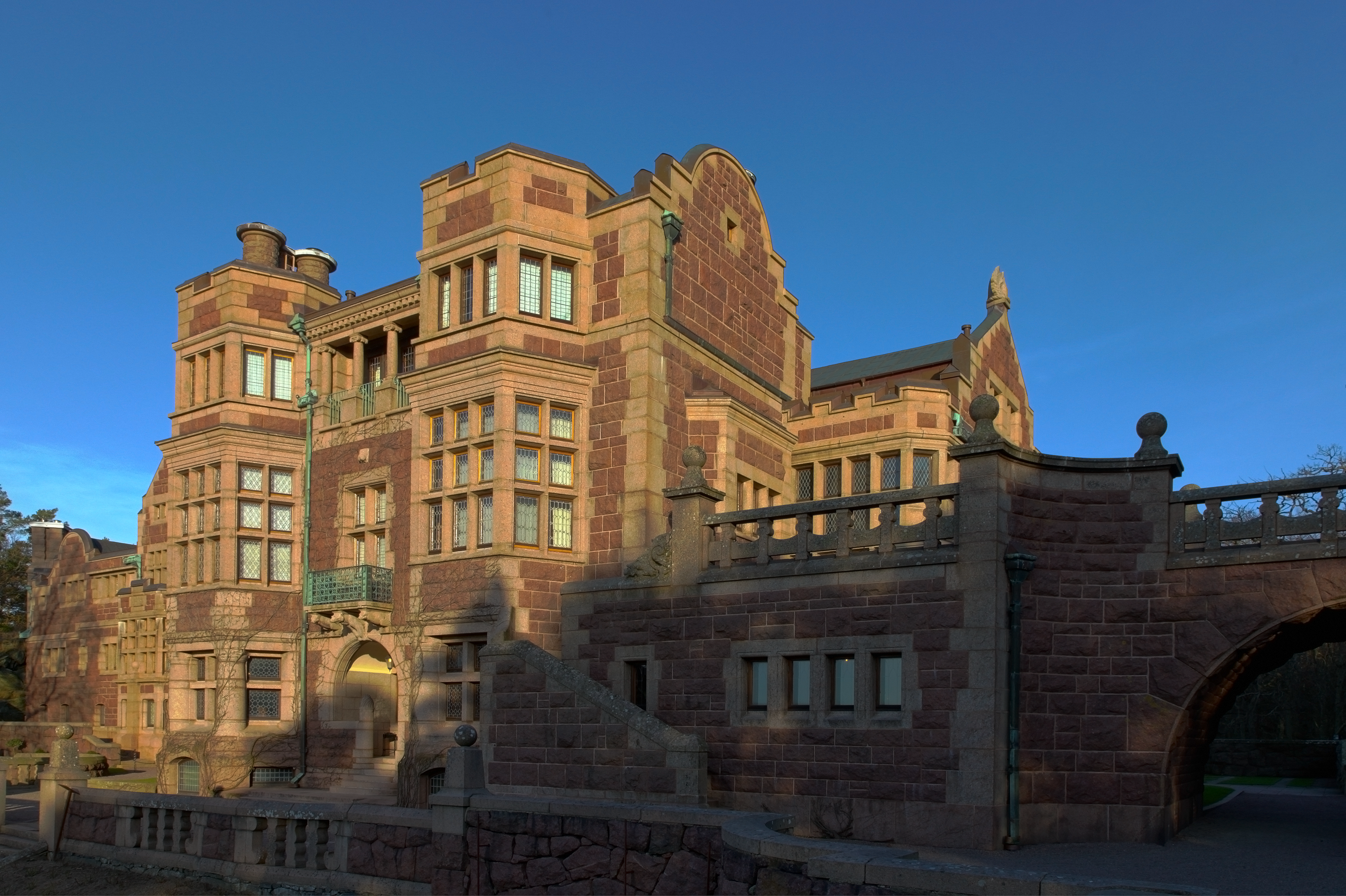 The Tjolöholms Castle at Åsa, just outside Gothenburg, Sweden. Built in 1899 and is quite modern although made by old style craftmanship.